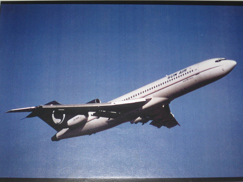 ZS-NVR was a Boeing 727-200 operated by the defunct South African airline, Sun Air.